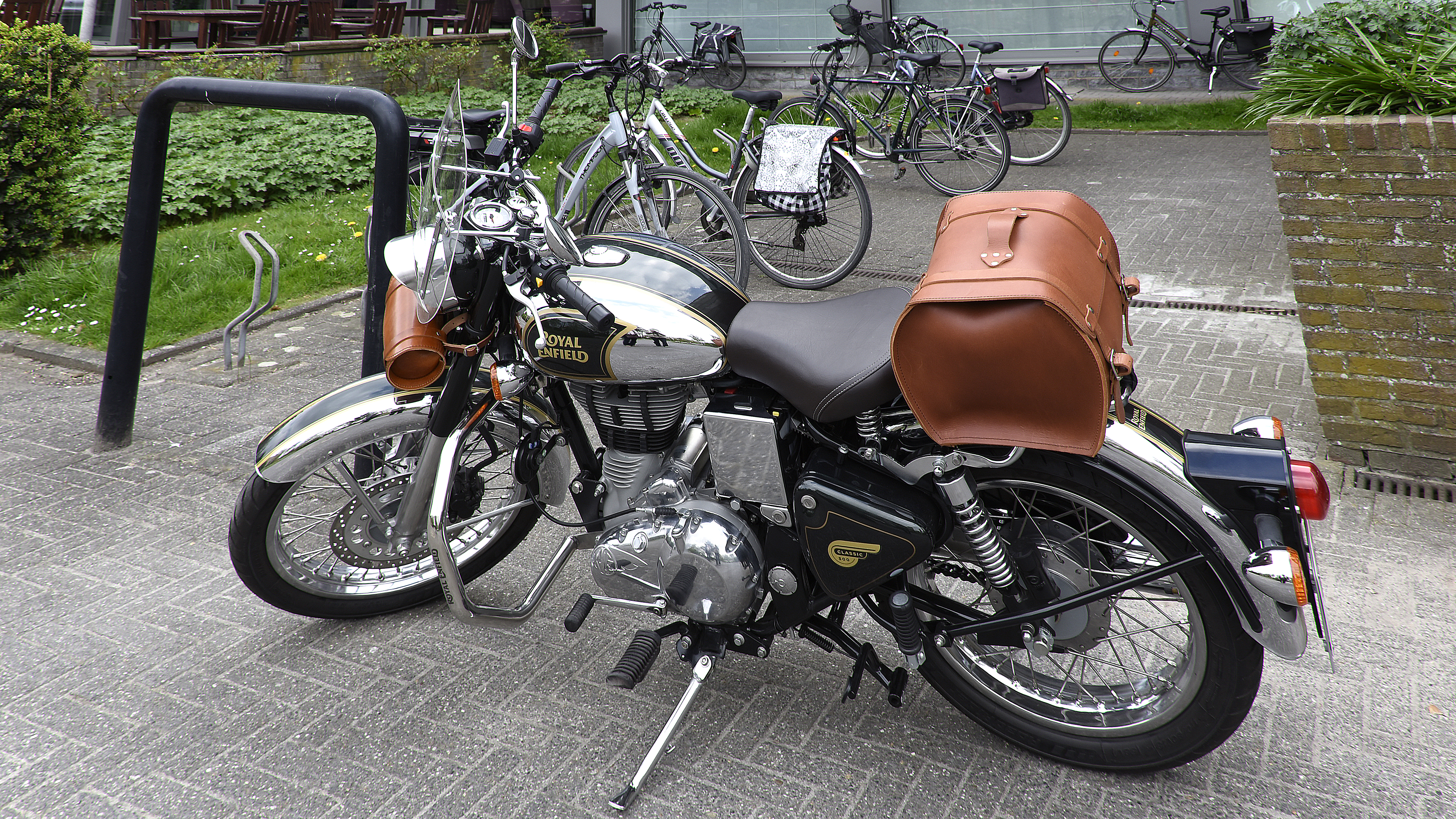 Royal Enfield Classic 500